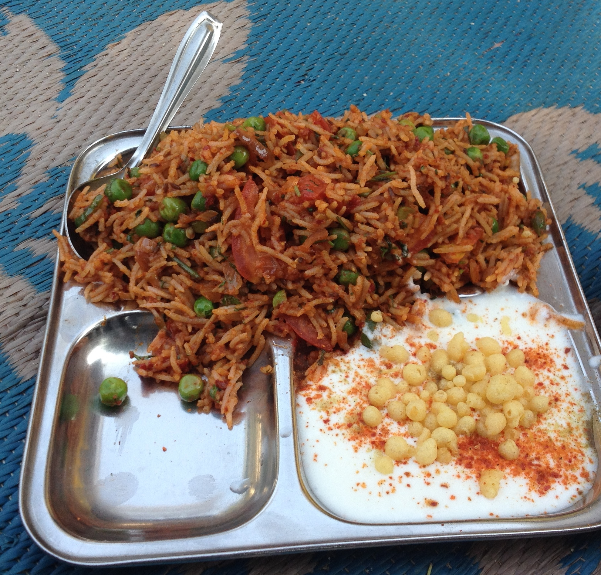 Tawa Pulao is a preparation of rice with some diced vegetables and spices fried on a frying pan. Boondi raita is a side dish made with yoghurt and Boondi(small round globules made with chick pea flour).